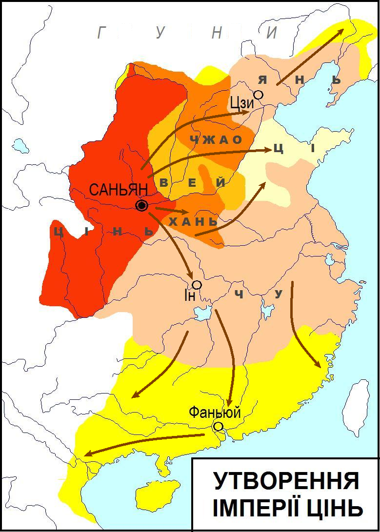 Creation of the Qin Empire (ukrainian)